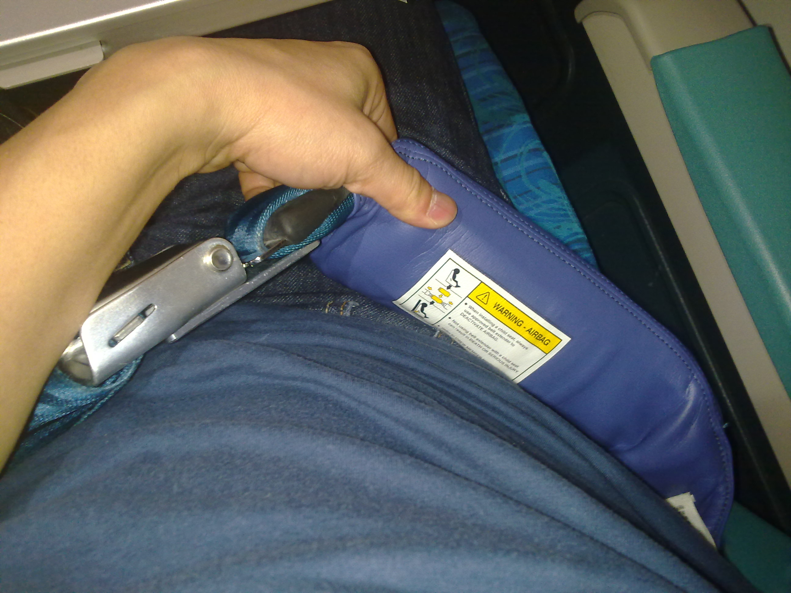 Airplane Airbag on Cathay Pacific Airbus A330. Picture taken by a friend of mine, and gave it me specially to upload it on wikimedia commons